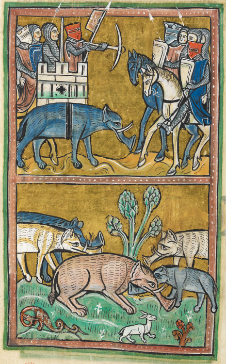 Two illustrations of elephants; detail of a miniature from the Rochester Bestiary, BL Royal 12 F xiii, f. 11v. Held and digitised by the British Library.